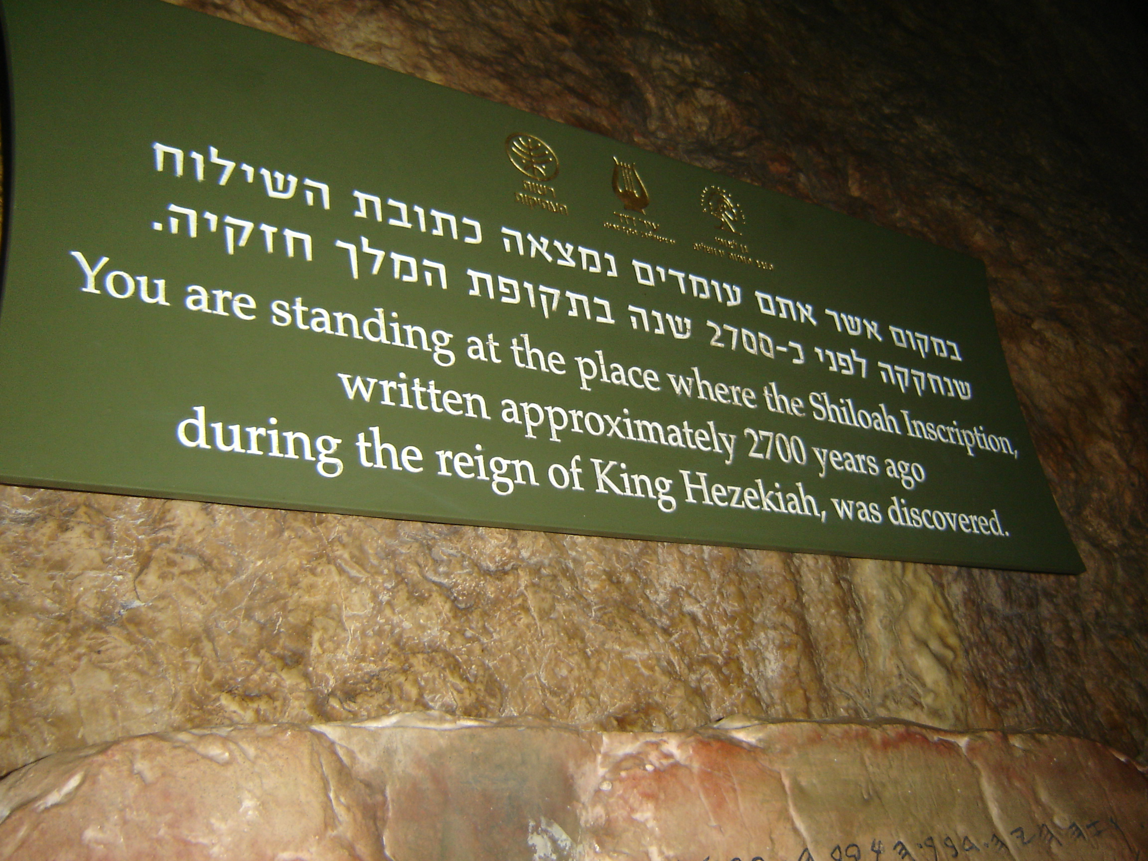 Hezekiah's tunnel